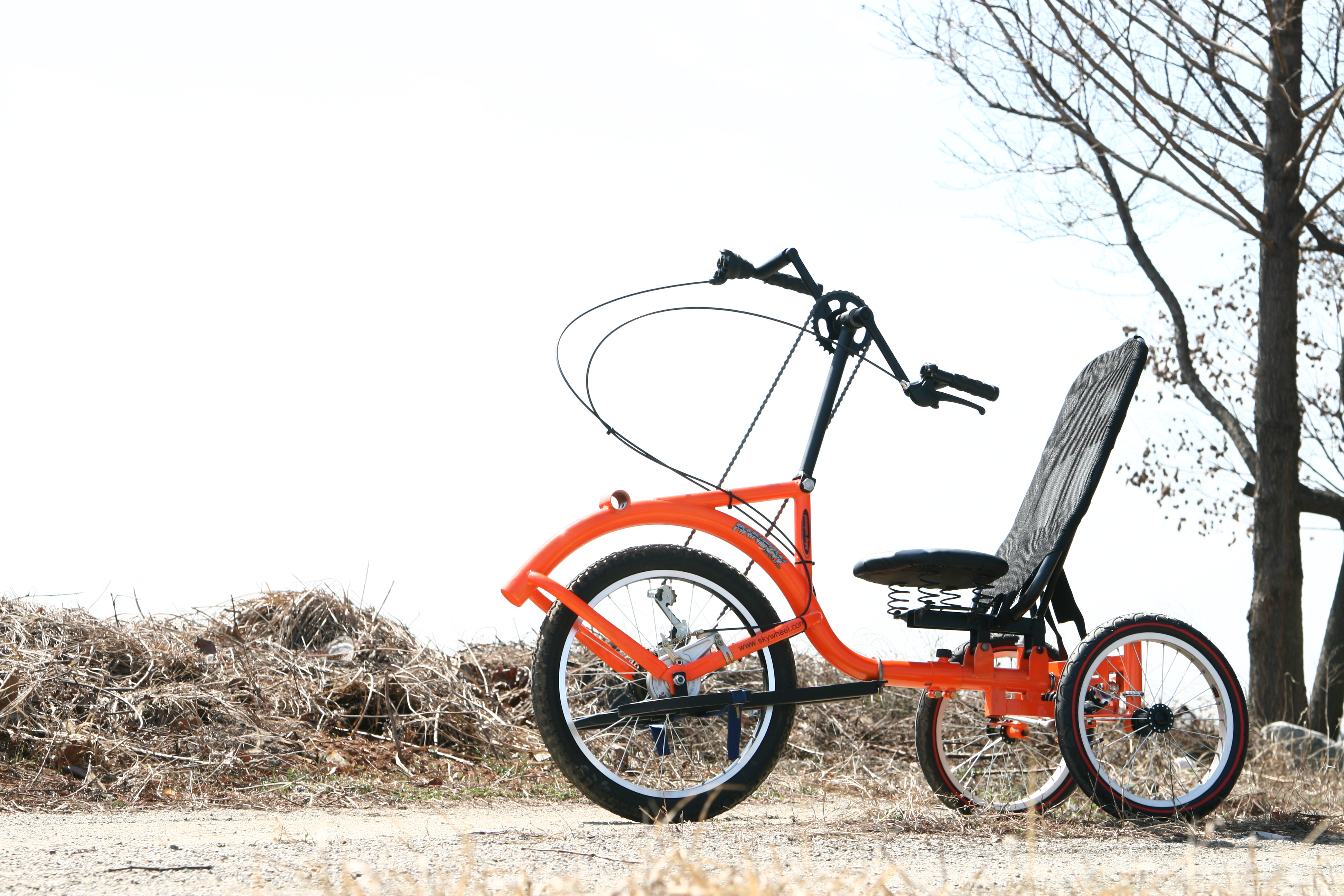 hand trike.